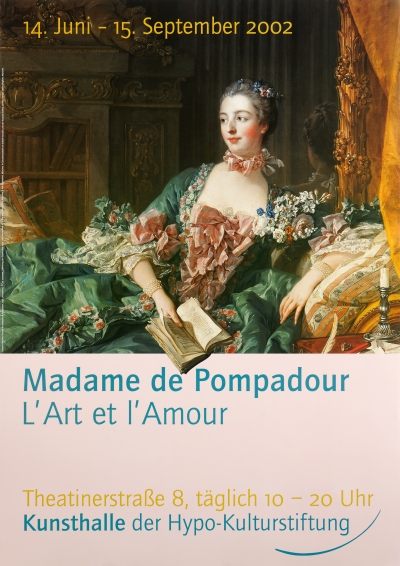 (c) Kunsthalle der Hypo-Kulturstiftung